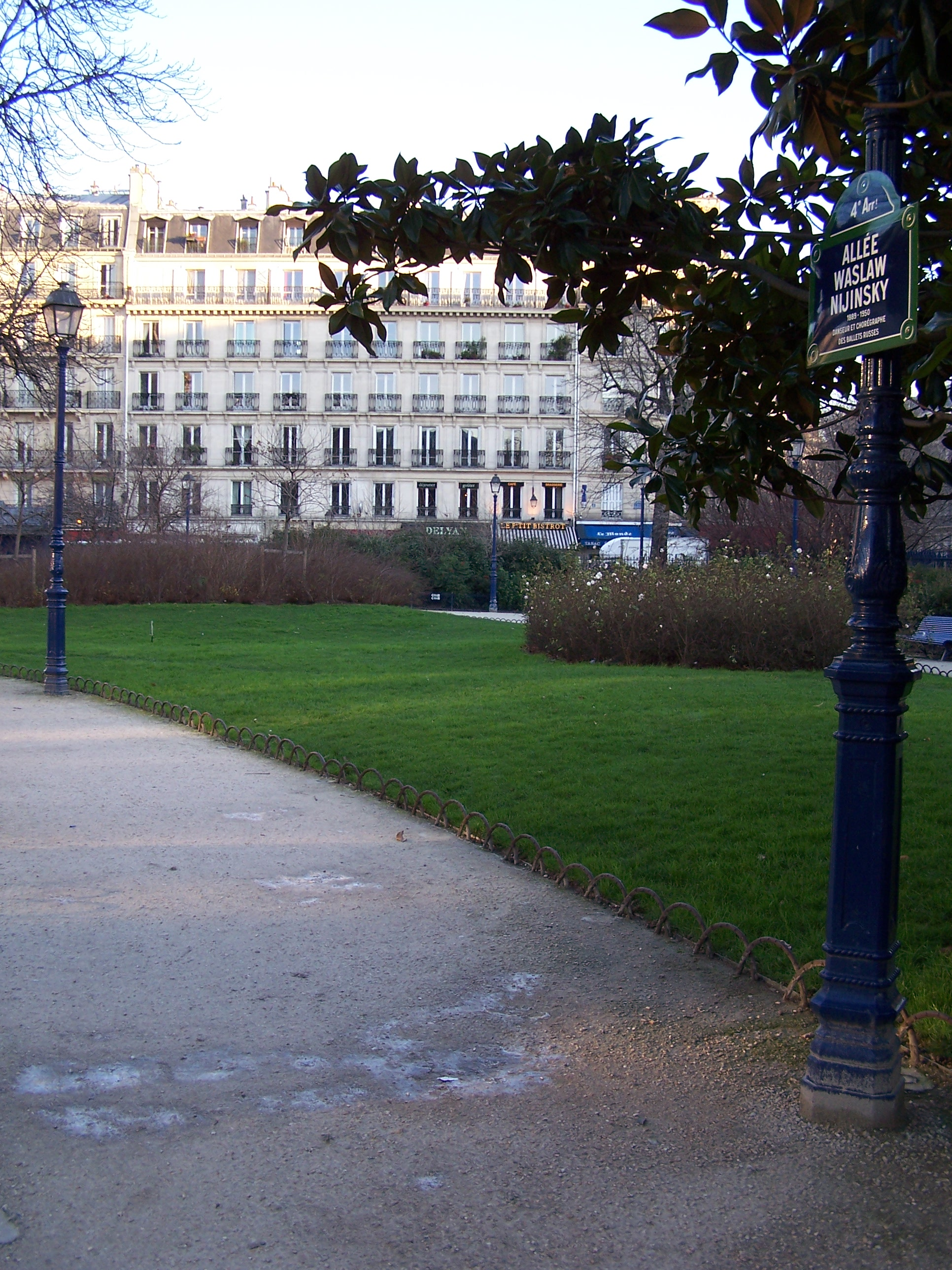 Allée Waslaw-Nijinski dans le square de la tour Saint-Jacques à Paris